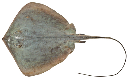 Estuary stingray (Dasyatis fluviorum)